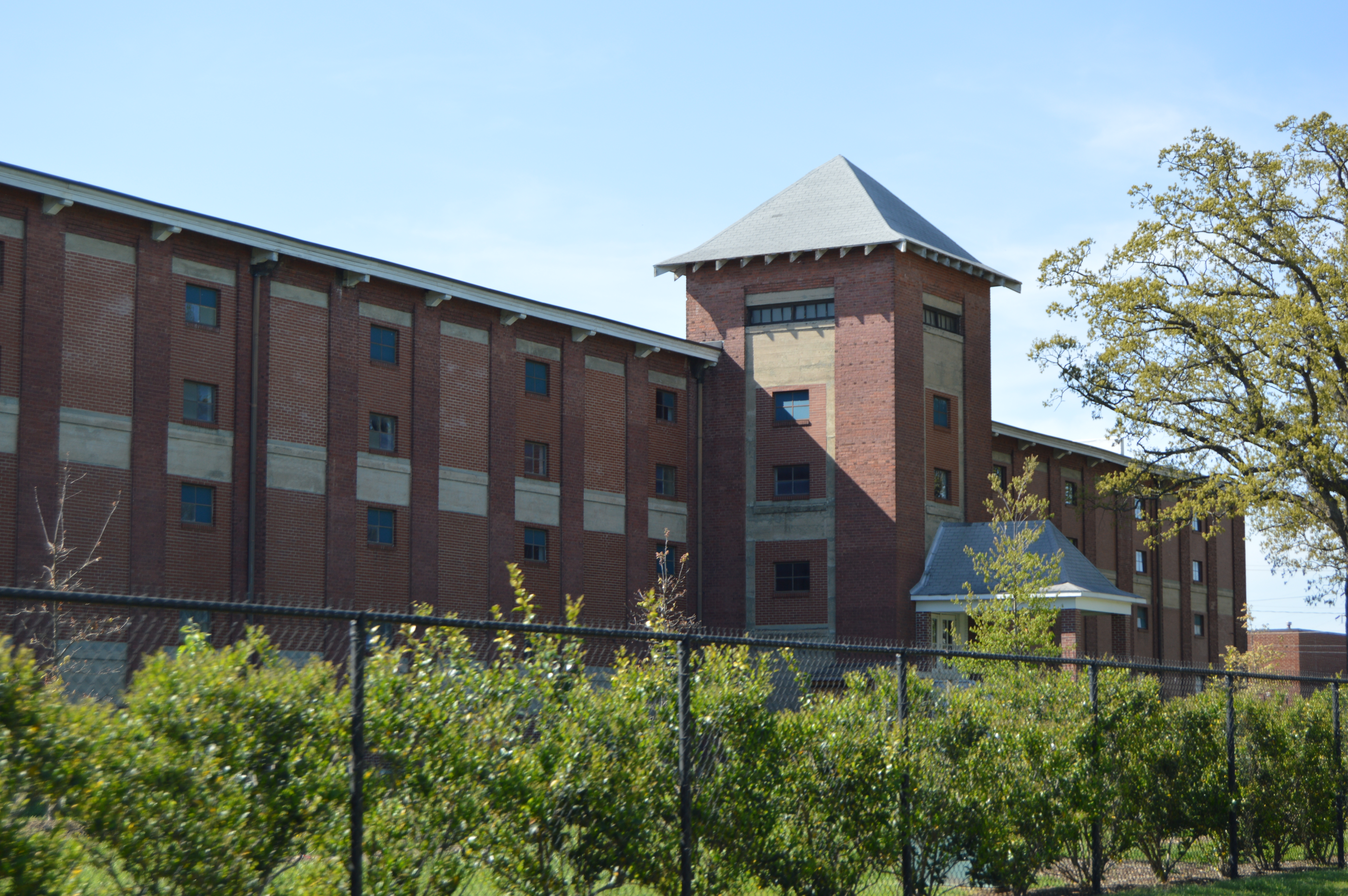 Front of the former Pickett Cotton Mills, located at 1200 Redding Drive in High Point, North Carolina, United States. Built in 1911, it is listed on the National Register of Historic Places.